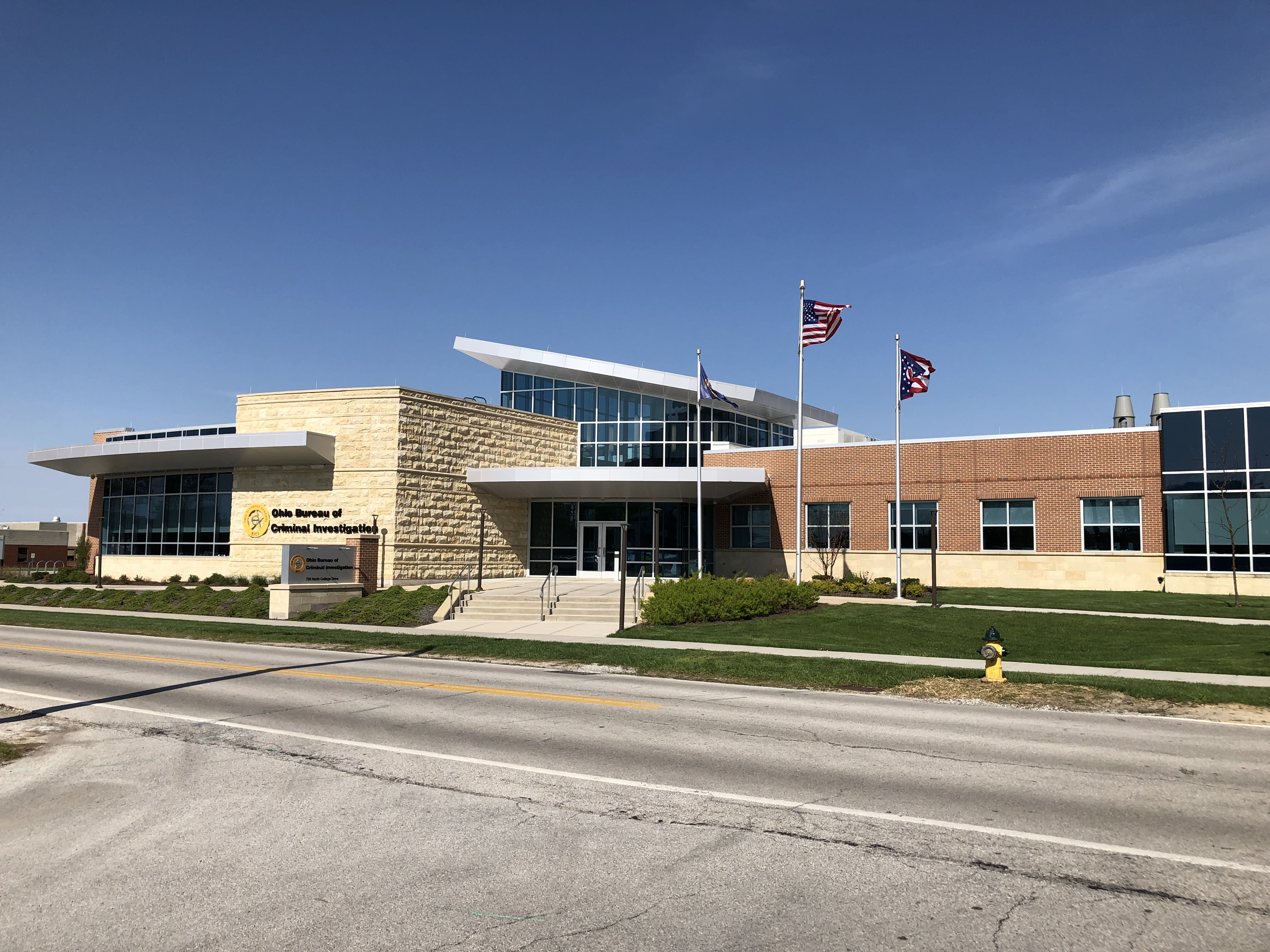 Office of the Ohio Bureau of Criminal Investigation at Bowling Green Sate University